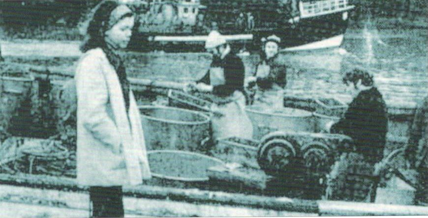 Scene of the Macedonian movie "Ispravi se Delfina"